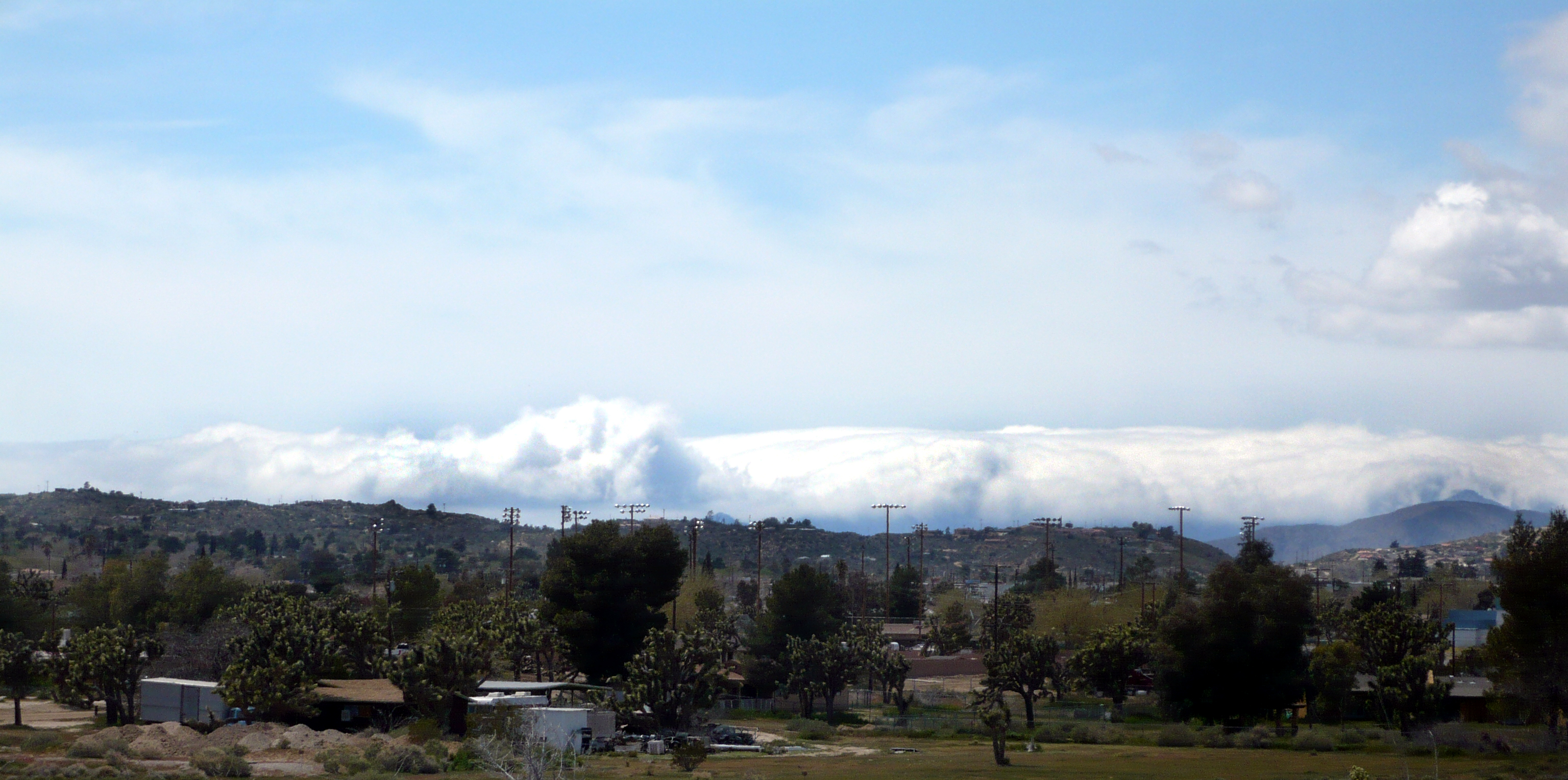 A storm front from the inland empire tries to enter the high desert town of Yucca Valley, but the San Bernardino mountains block its path